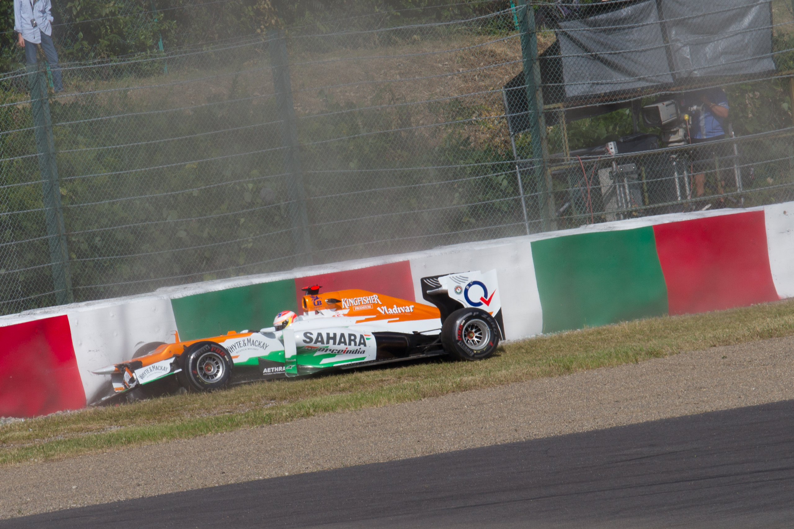 Formula One 2012 Rd.15 Japanese GP: Paul di Resta (Force India) crashed at Spoon Curve in Free Practice 2.